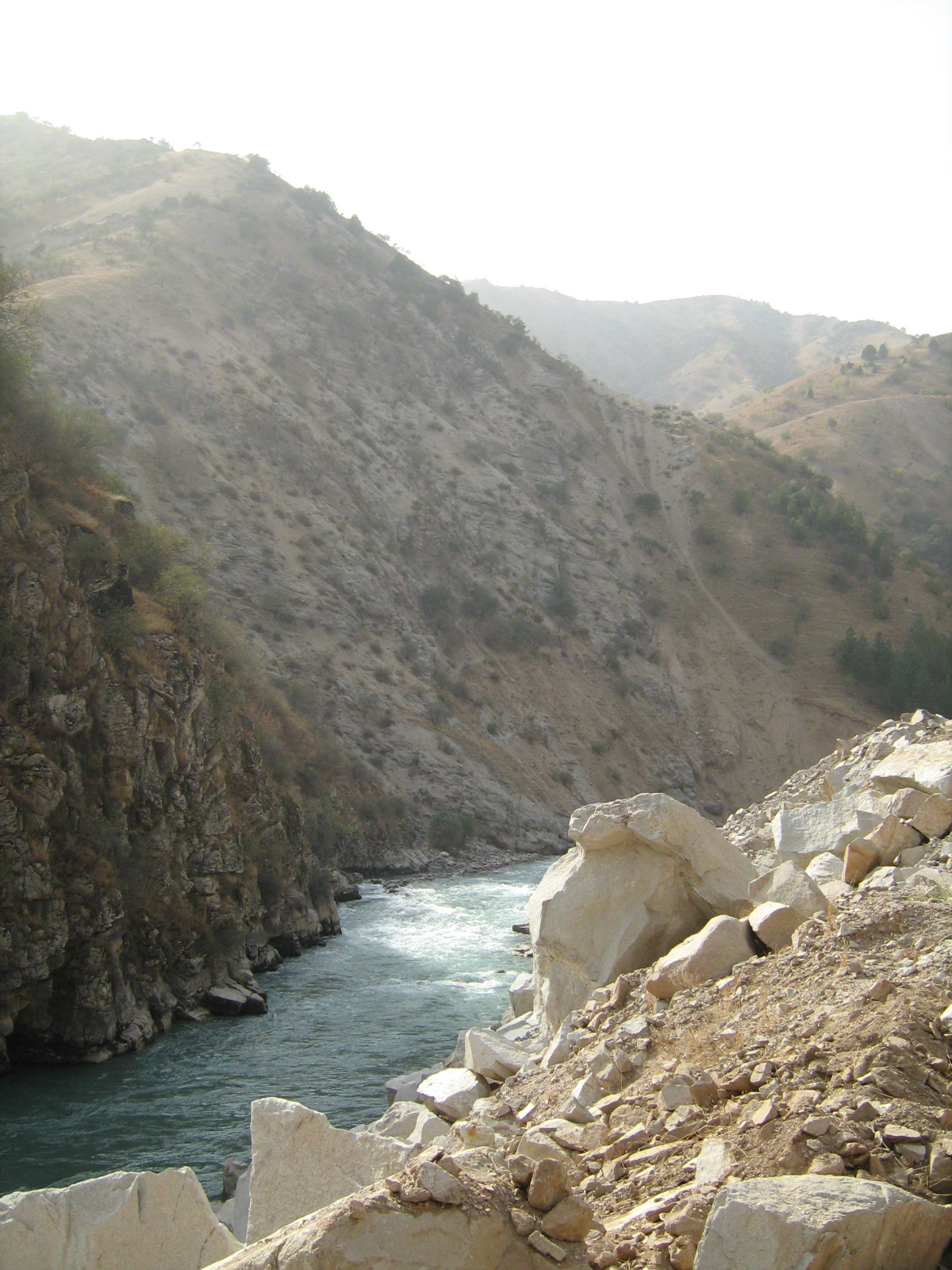 Varzob river near Dushanbe, Tajikistan